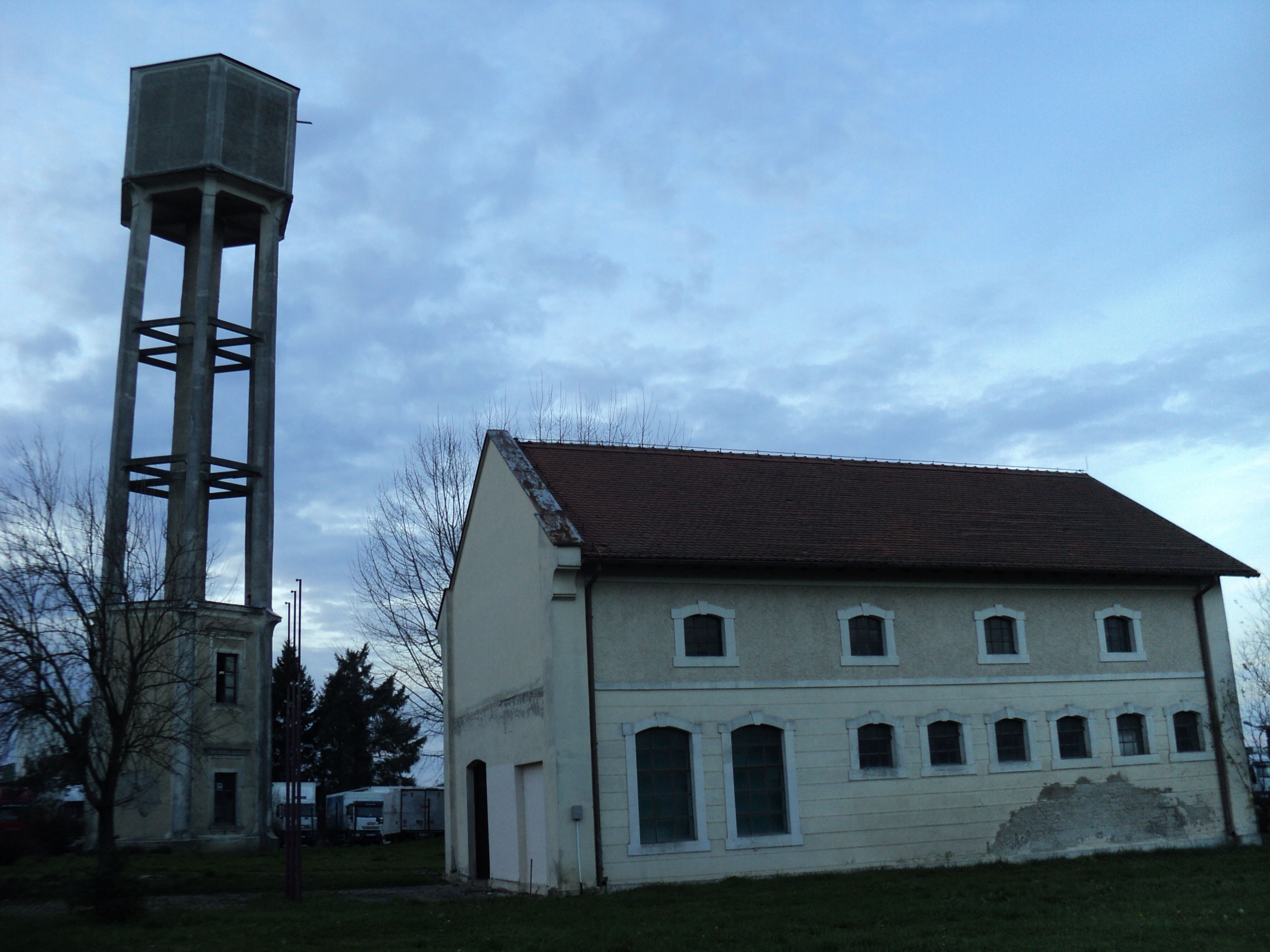 Danica Memorial Area near Koprivnica, place of the first concentration camp in the so-called Independent State of Croatia. In front is the building of the Memorial museum and guard tower.